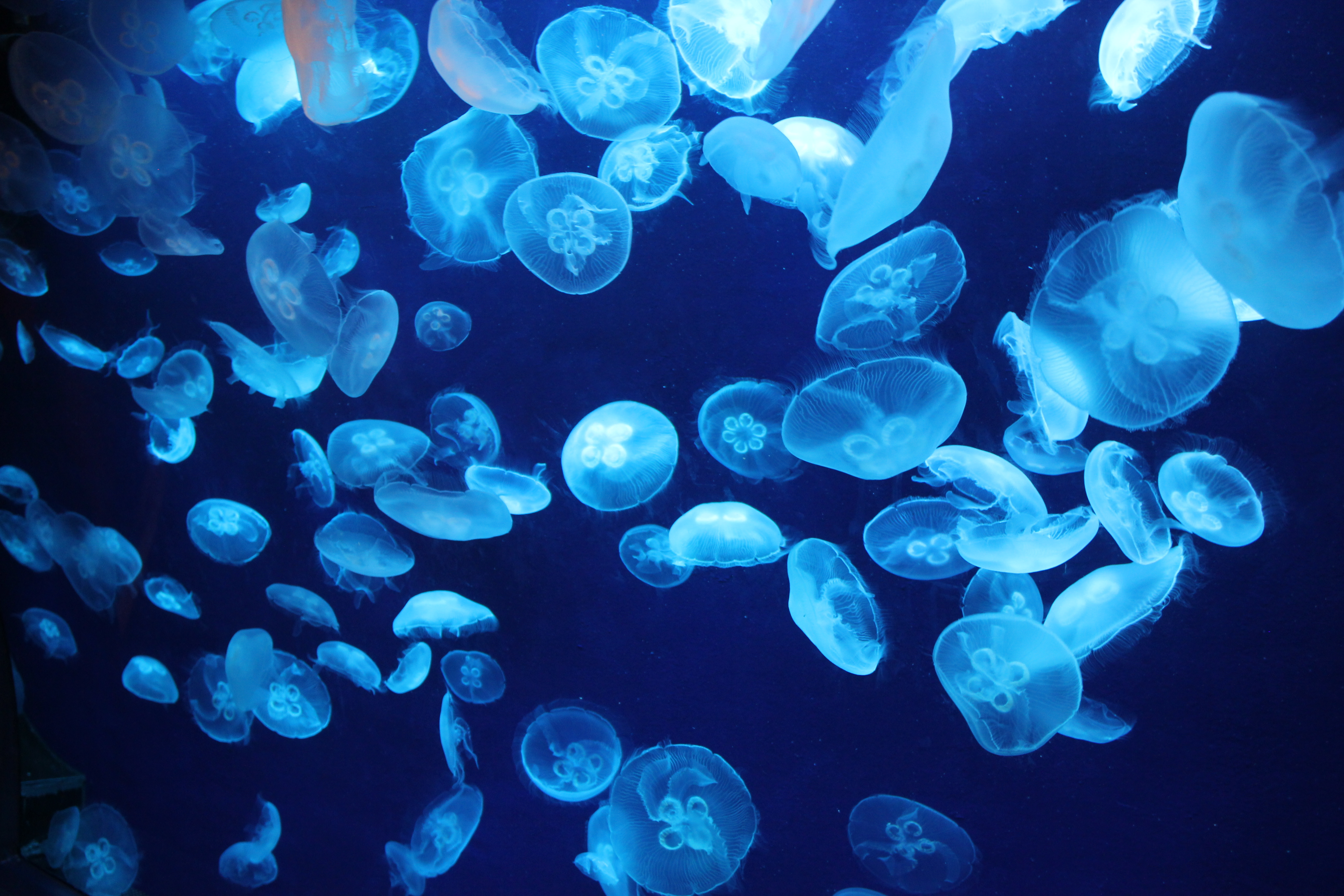 Sunshine City Aquarium